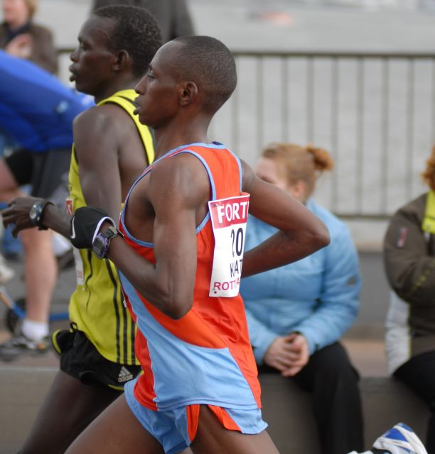 Charles Kamathi during Rotterdam Marathon 2008